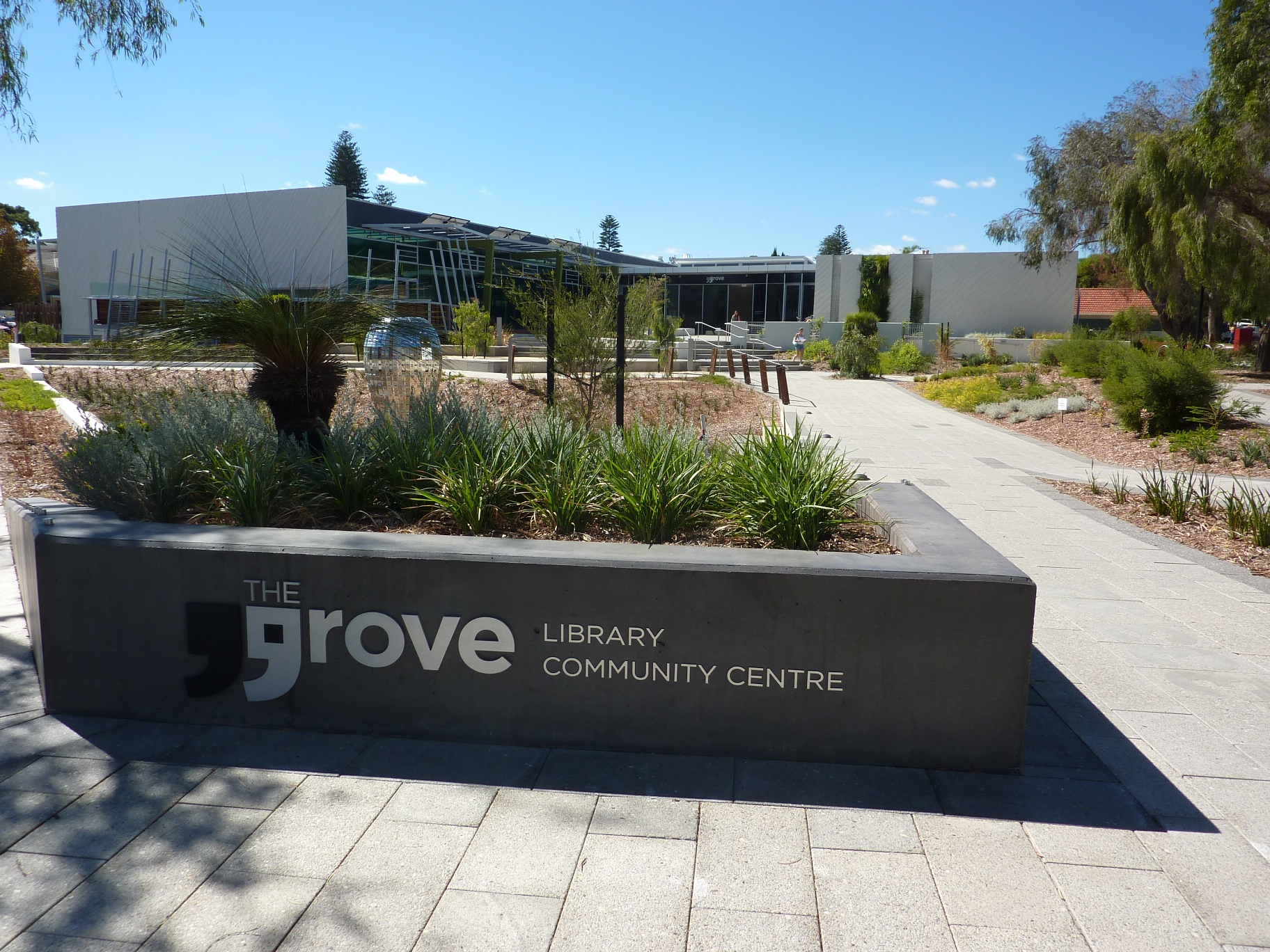 The Grove Library, 1 Leake Street, Peppermint Grove, Western Australia